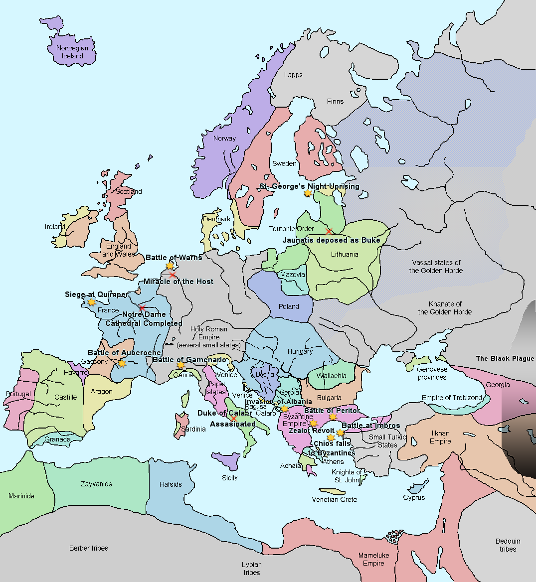 A map of Europe in 1345, showing the location of events that took place in that year. The Black Plague's exact location in unknown, and the shaded area to the right represents rough scholarly estimates. It hit the Crimea in the following year.